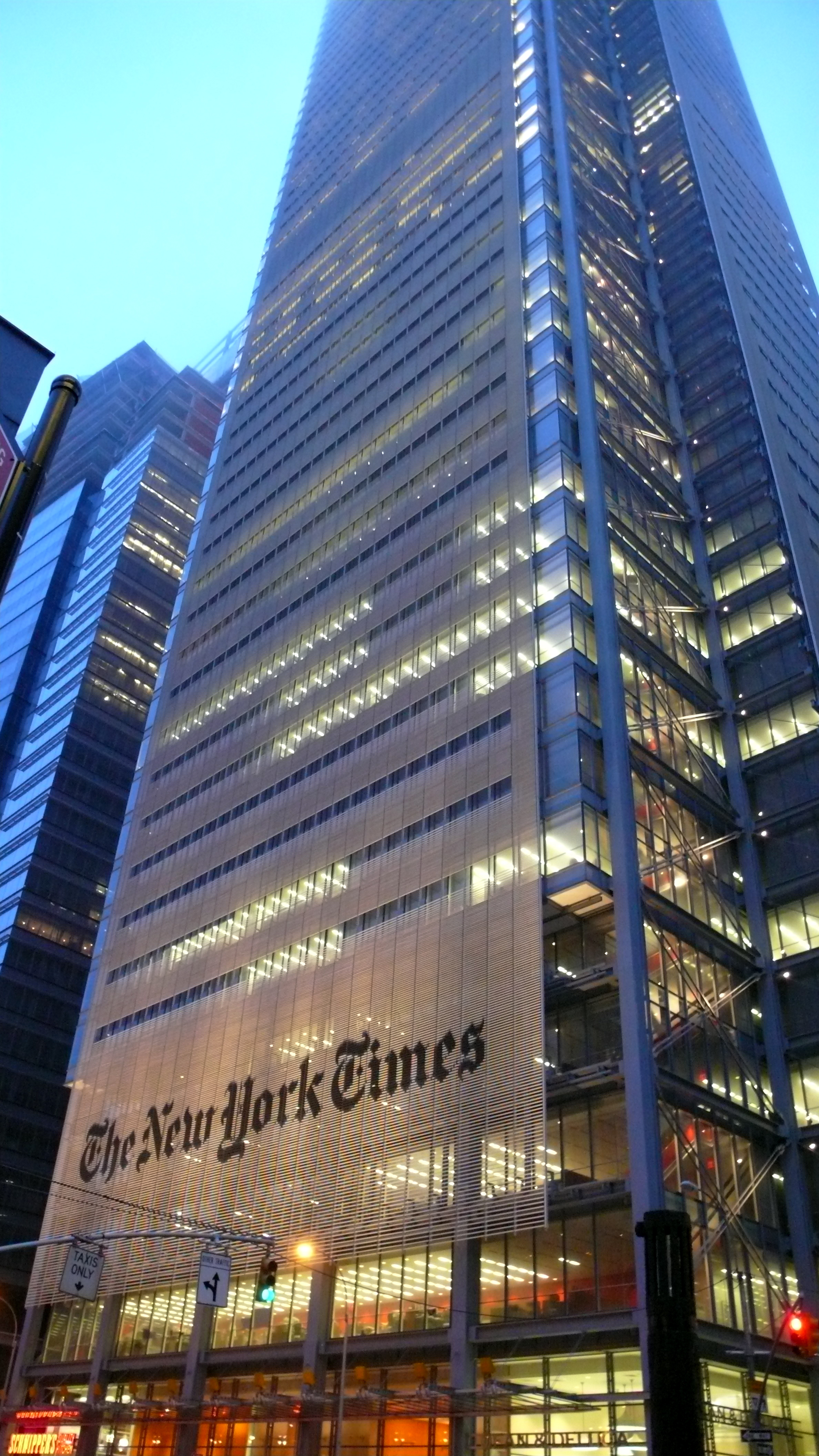 The New York Times Tower by Renzo Piano